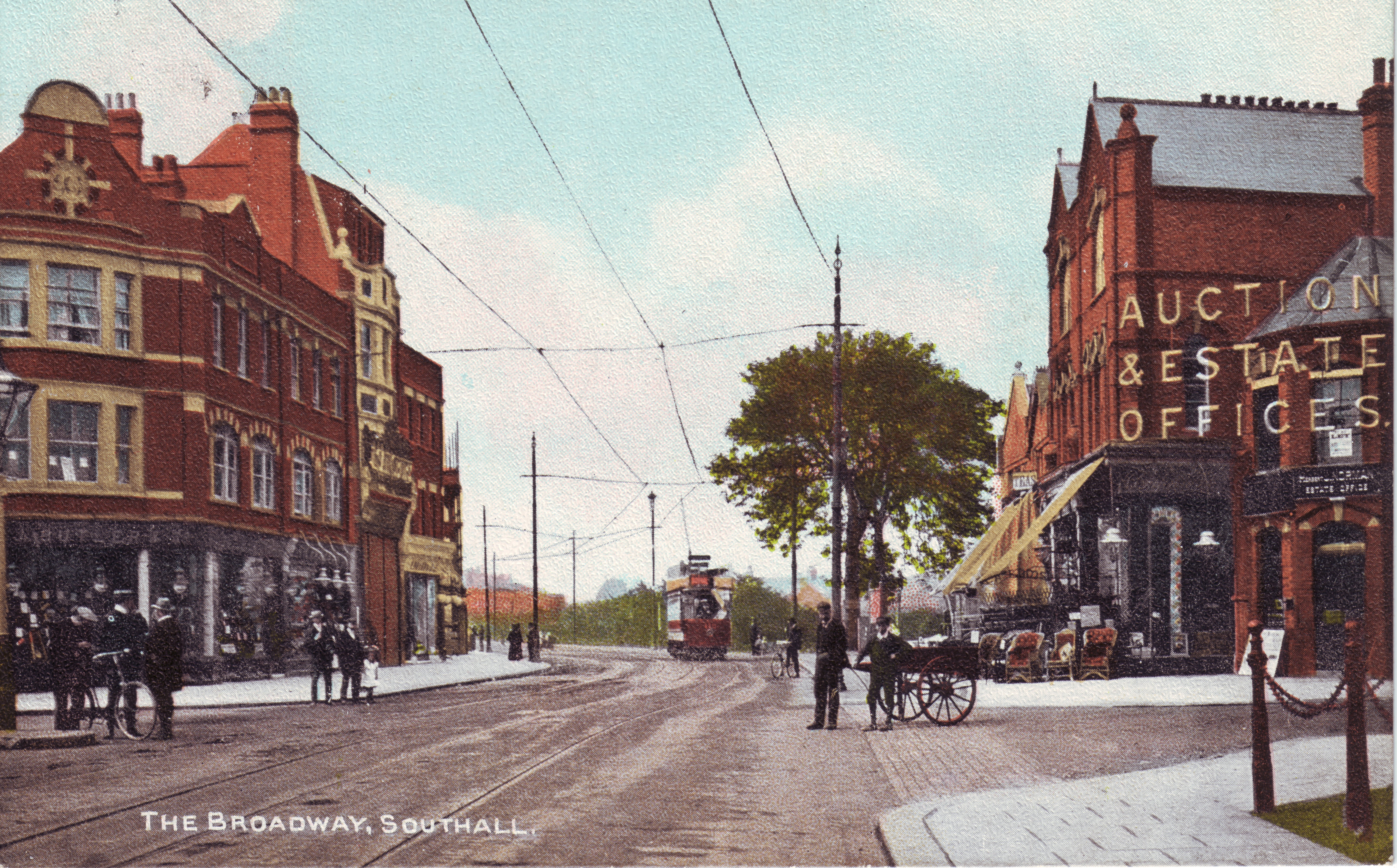 A postcard of Southall Broadway c.1905. Looking WNW along the Uxbridge Road towards Hayes. Taken just before the junction of South Road which is to the left and Lady Margaret Road which is on the right.